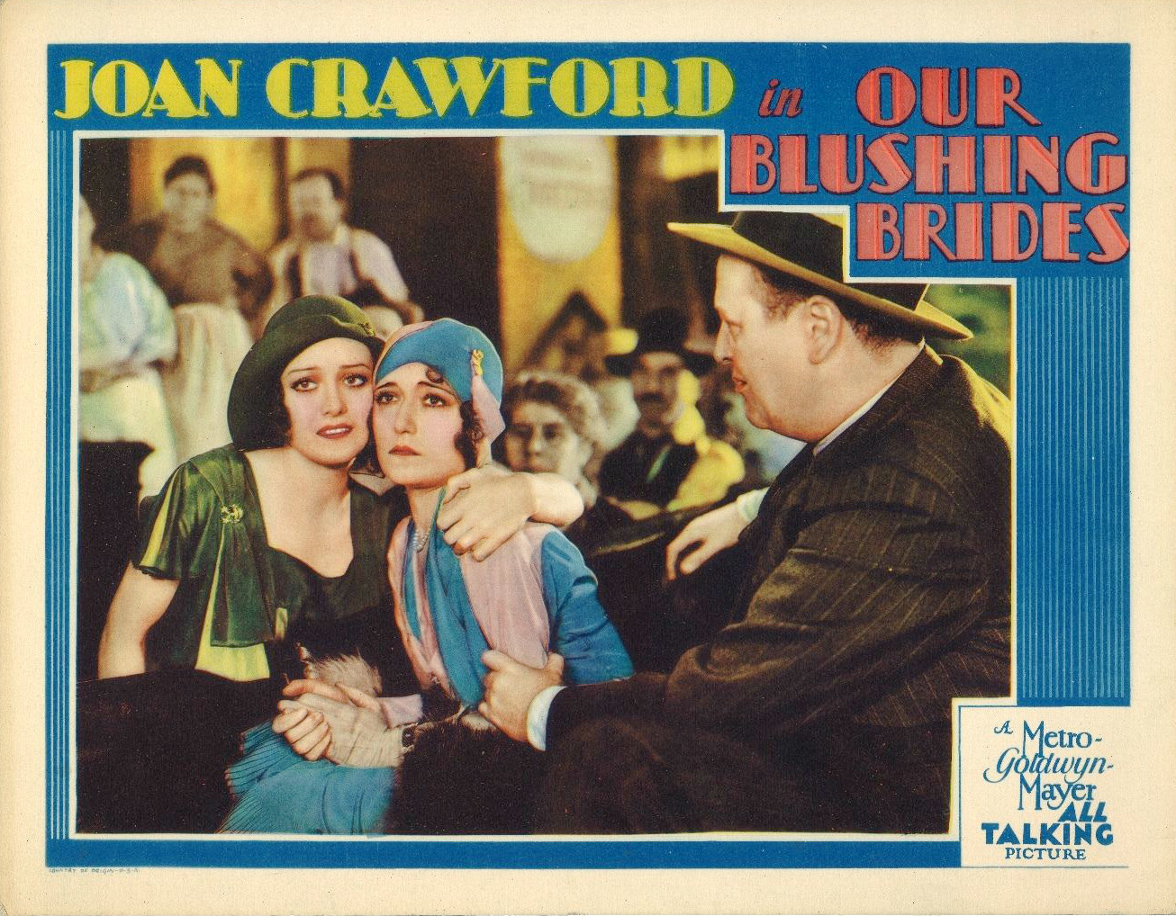 Lobby card for the American romantic comedy film Our Blushing Brides (1930).